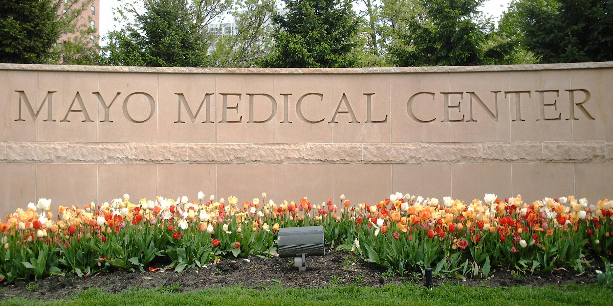 Photo I took today north of the Mayo Clinic main campus in Rochester, Minnesota. CC & GFDL.